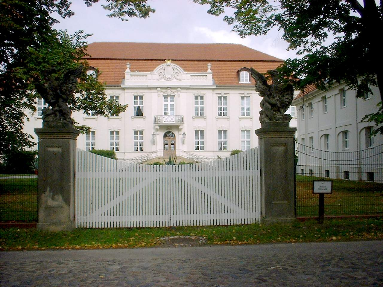 Manor house of the family von Zieten in Fehrbellin-Wustrau in Brandenburg, Germany